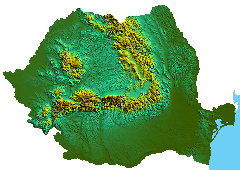 Elevation shaded contour of Romania Global Shader of Romanian DEM data.